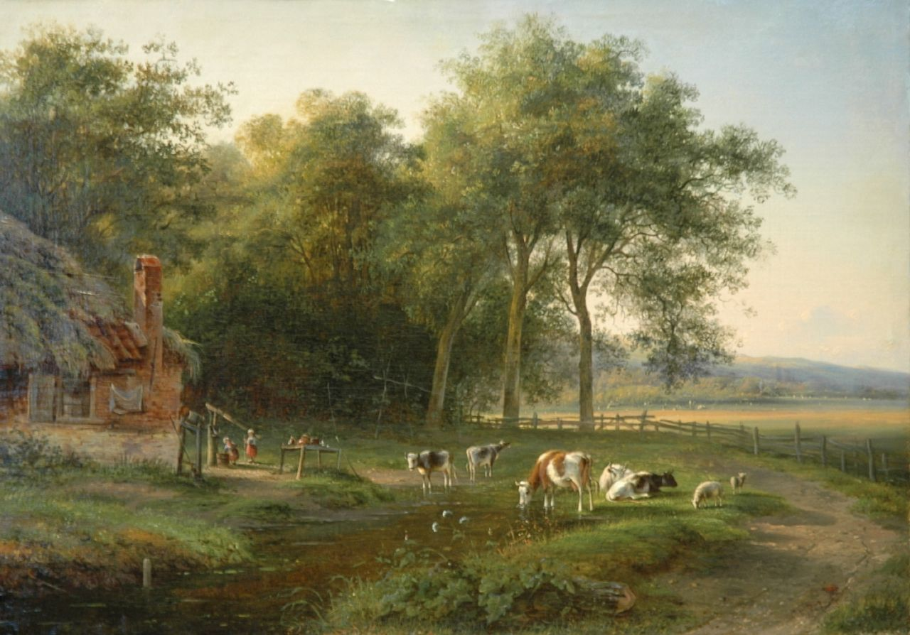 Cattle in a summer landscape